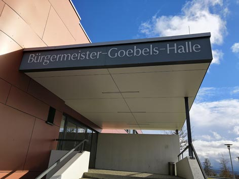 Buergermeister Goebels hall in Bad Neustadt/Saale